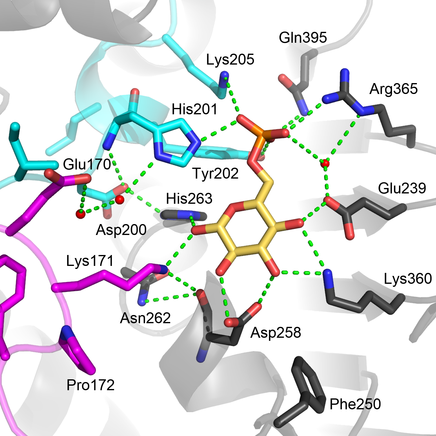 G6PD with labeled active sites